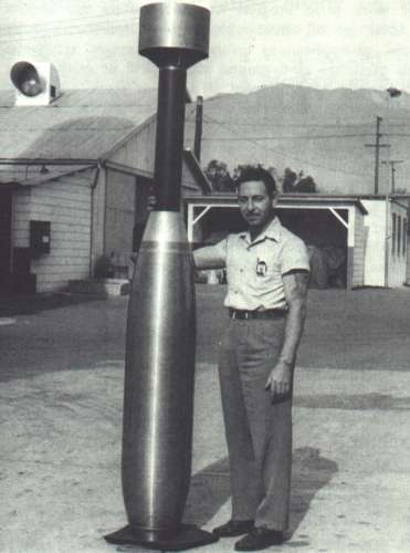 RUR-4A Weapon Alpha rocket